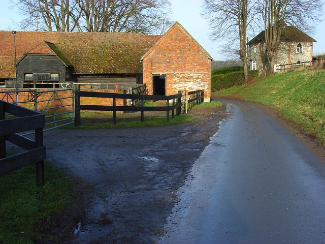 Dean Place Farm and Juddmonte House Rose Lane passing this equestrian centre.